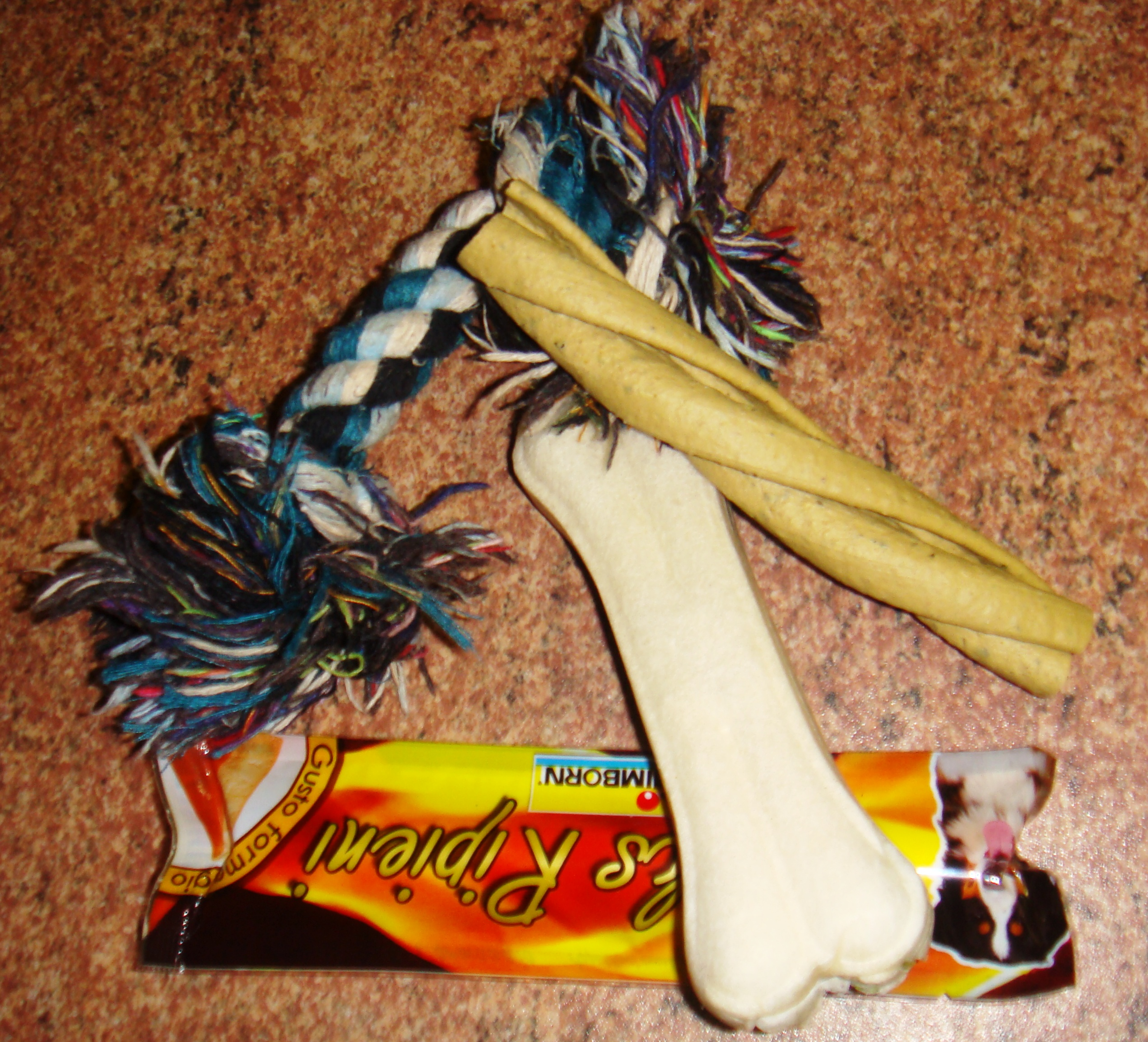 Bone to chew, dental and supplemental feed